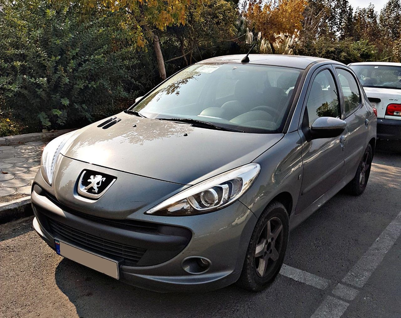 Peugeot 207i is a modified version of 206. It's also known as Peugeot 206+.